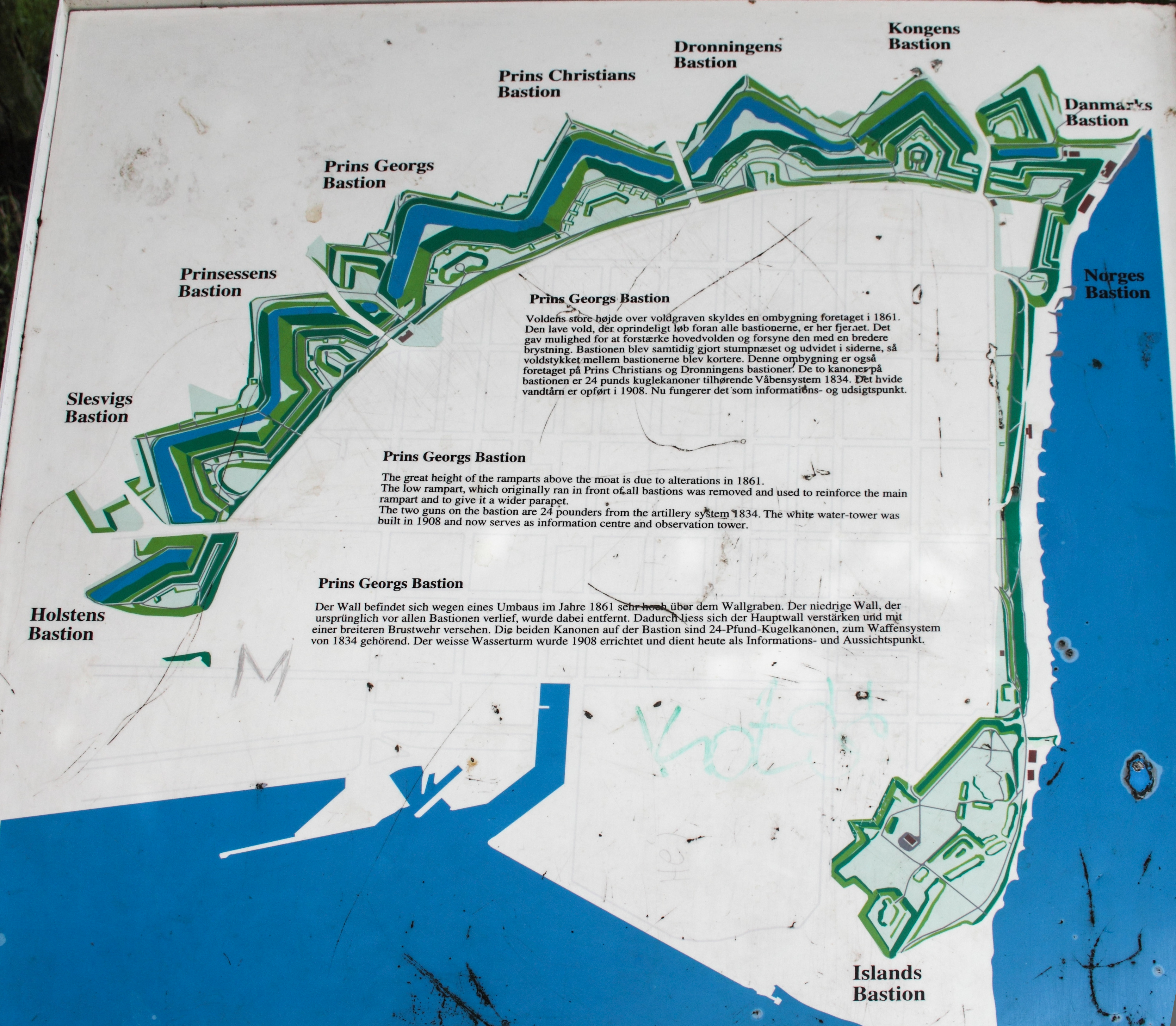 Fortress of Fredericia, map